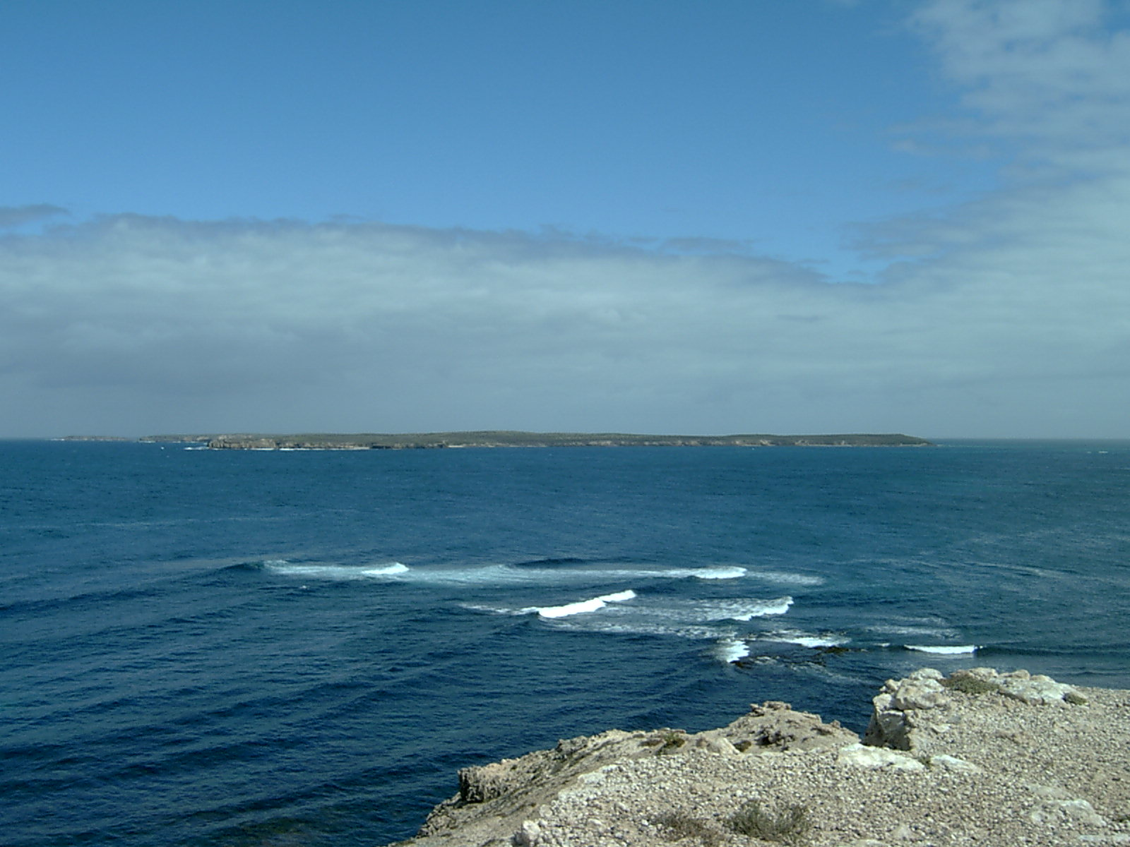 January 2007.